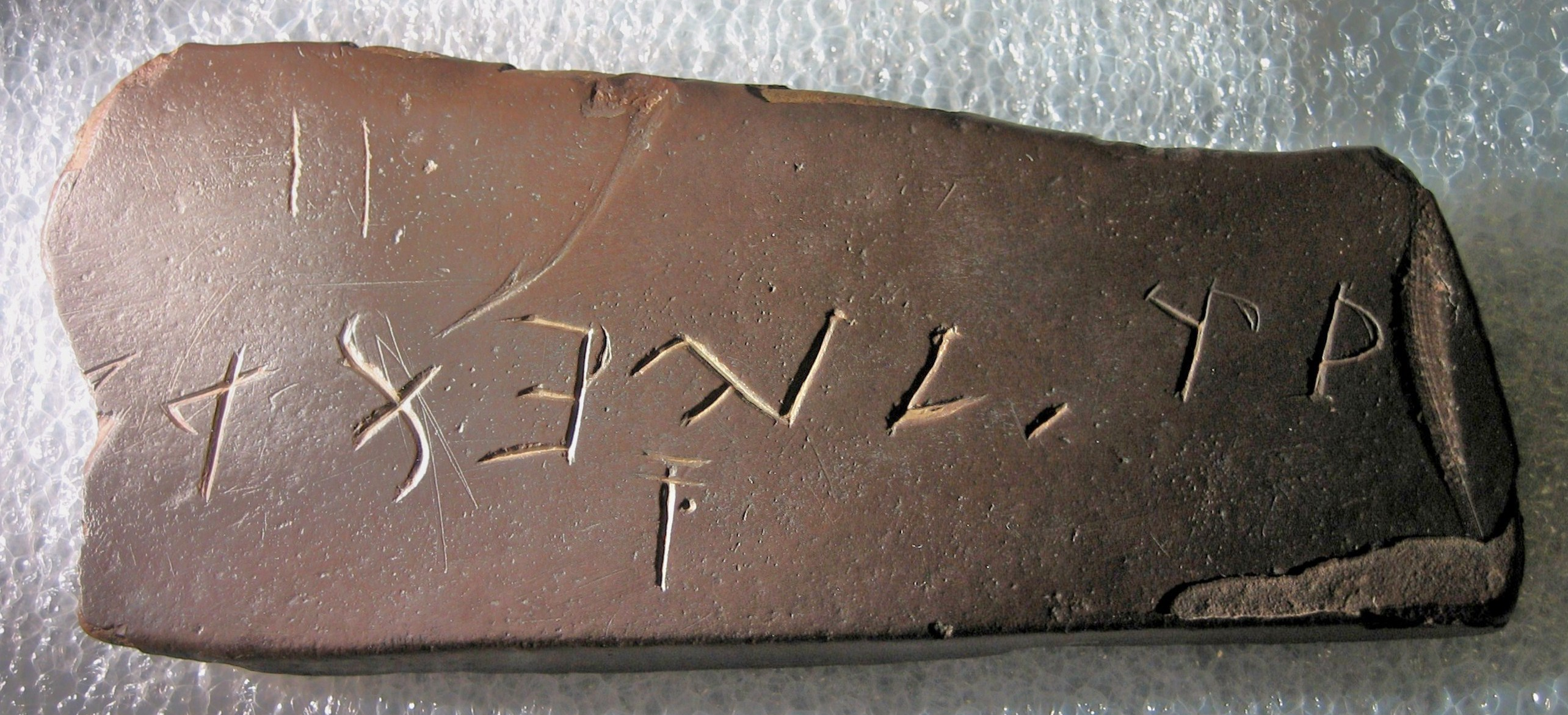 This a reflected light image of the controversial Bat Creek Stone. Credit: Scott Wolter